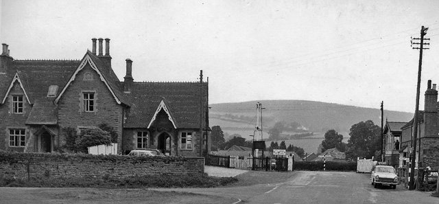 Bucknell Station. View NW, across ex-London & North Western (Shrewsbury) - Craven Arms (right) - Llandovery (left) - Swansea (Llanelli since 1965)(Heart of Wales) Line.